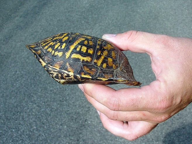 Terrapene carolina, Eastern Box Turtle, Shawnee National Forest Mississippi, Illinois, United States